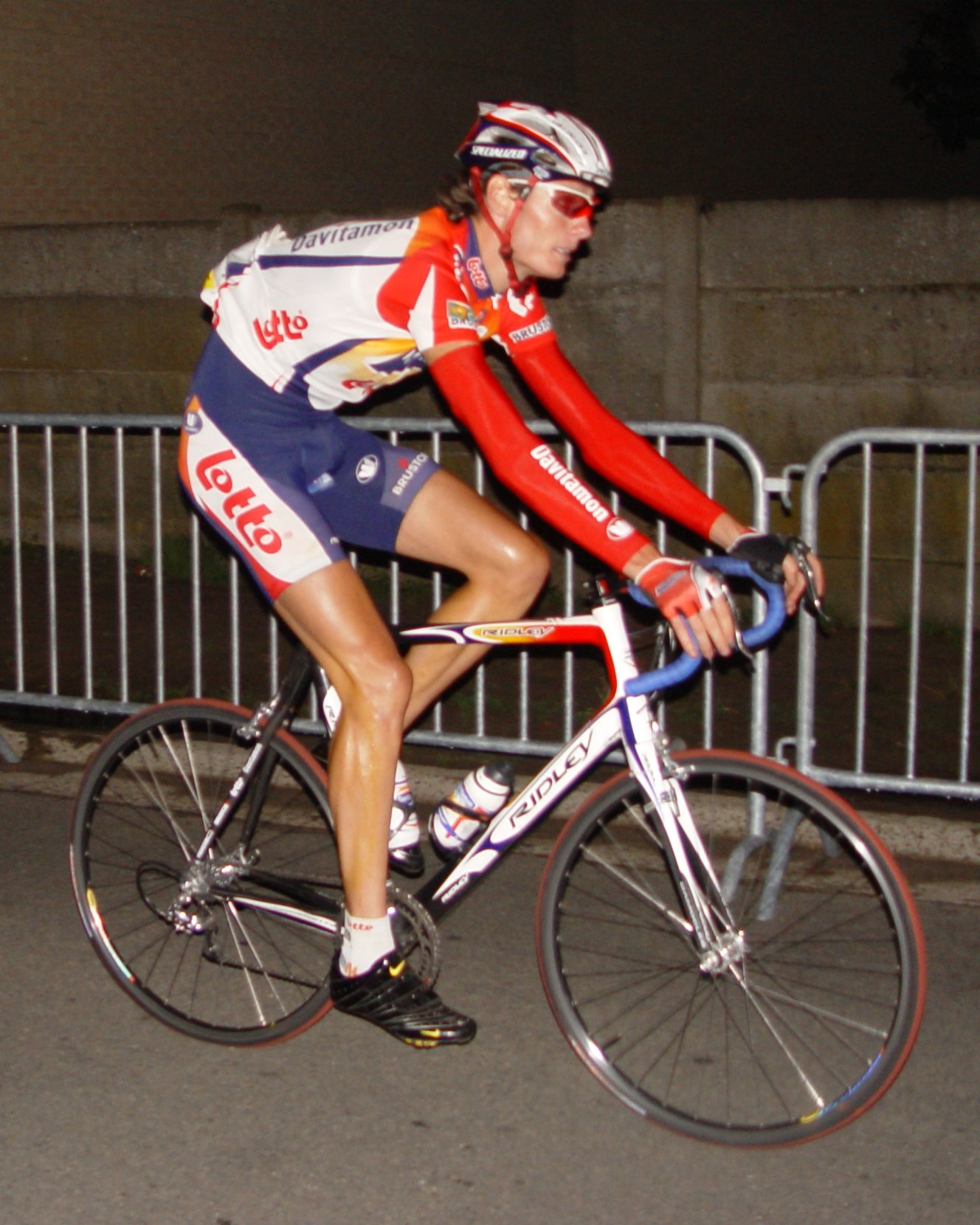 Foto Johan_Vansummeren